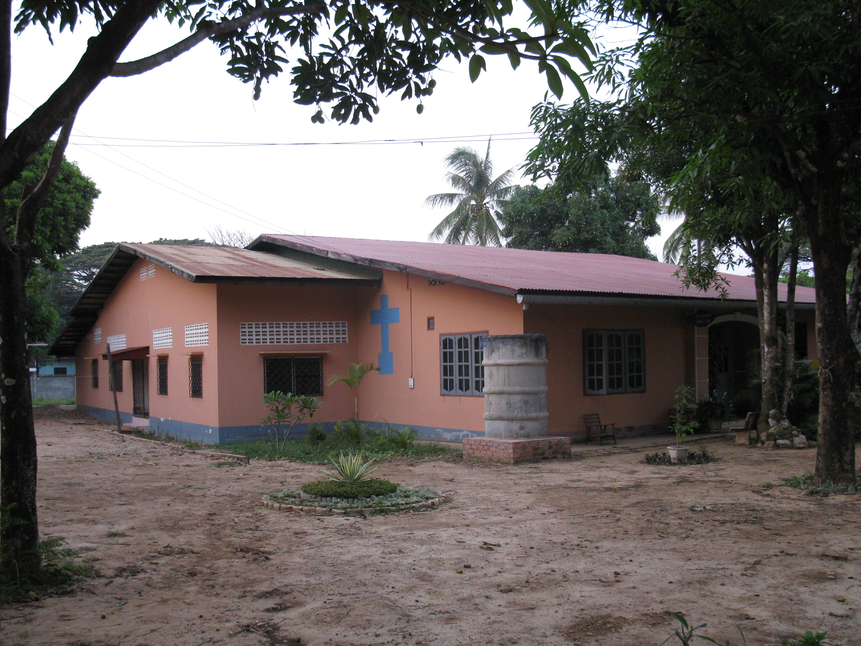 Catholic Seminary, City of Thakhek, Laos.